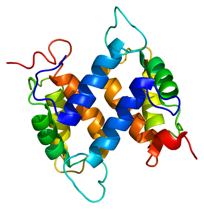 Structure of the S100A13 protein. Based on PyMOL rendering of PDB 1yur.